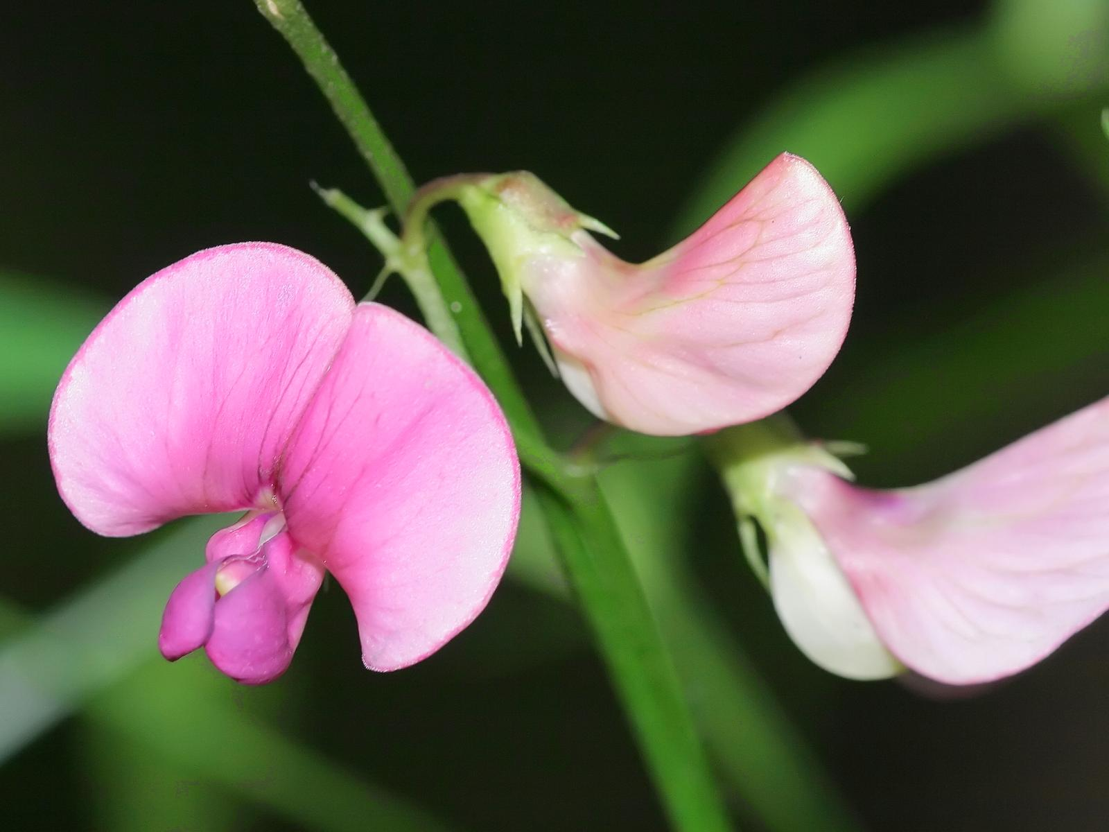 Wald-Platterbse (Lathyrus sylvestris)